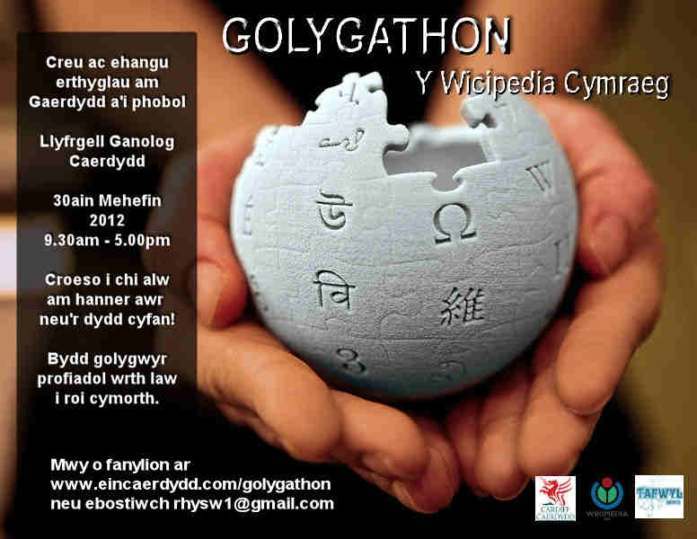 A poster advertising a Golygathon (Editathon) of the Welsh Language Wicipedia at Cardiff Central Library 30.6.12